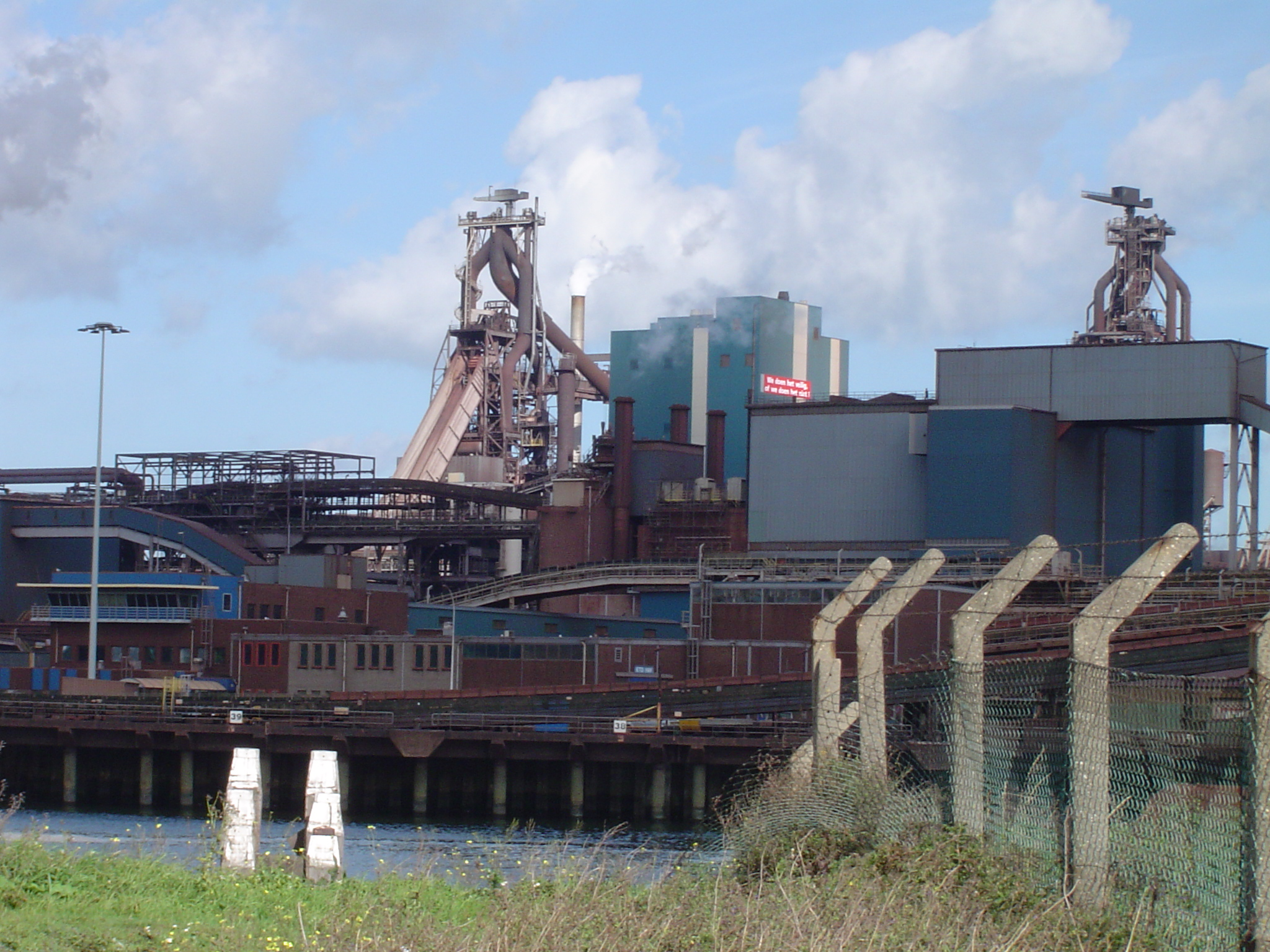 Hoogovens Steal (Corus) IJmuiden, Holland